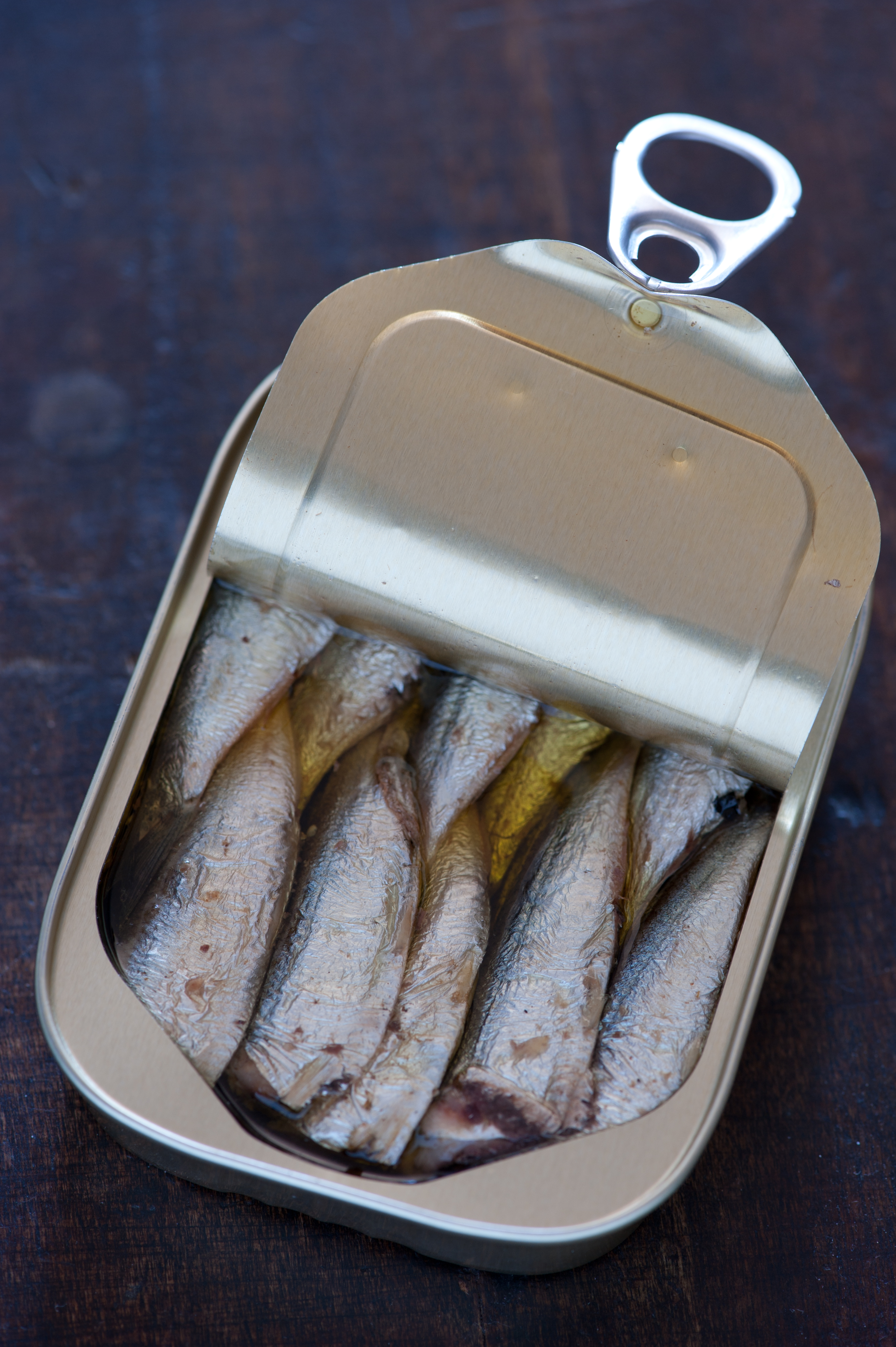 Sardines in a can. King Oscar Brand Brisling Sardines. connected story